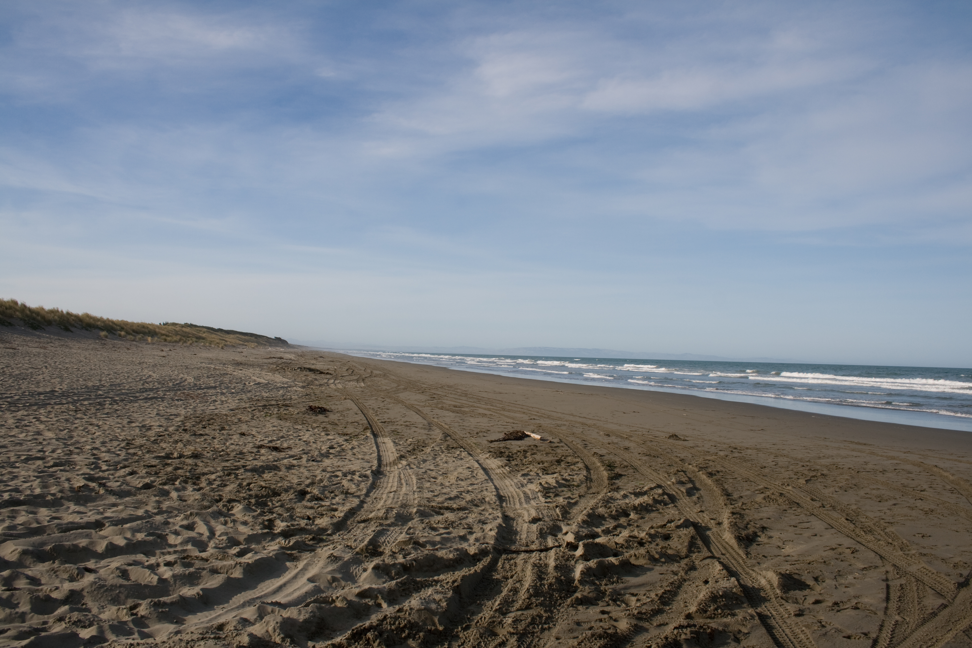 Spencer Beach is part of Pegasus Bay, just south of where the Waimak flows into the sea.